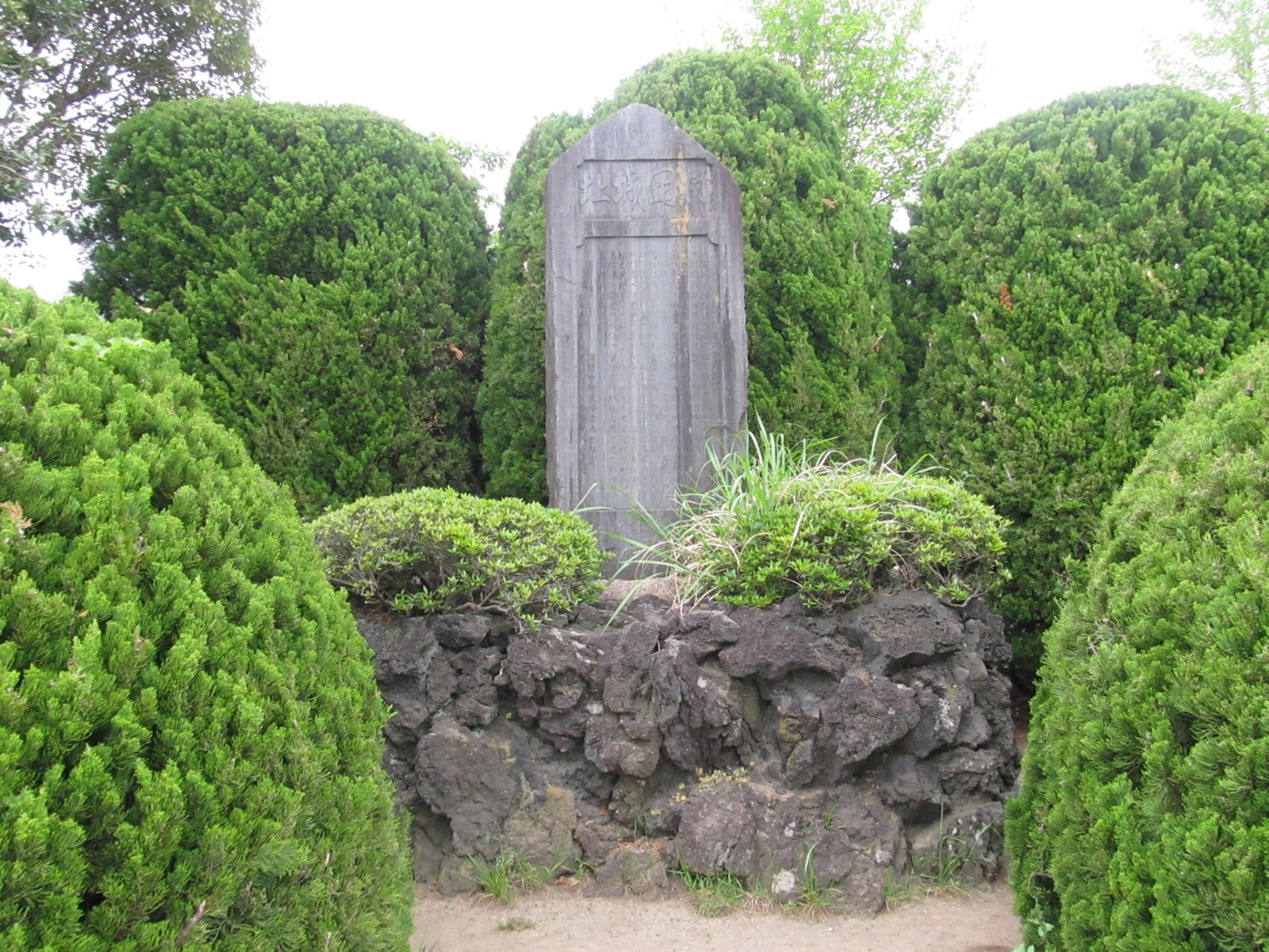 Historick site of Muraoaka Castle in Fujisawa City, Kanagawa Prefecture, Japan